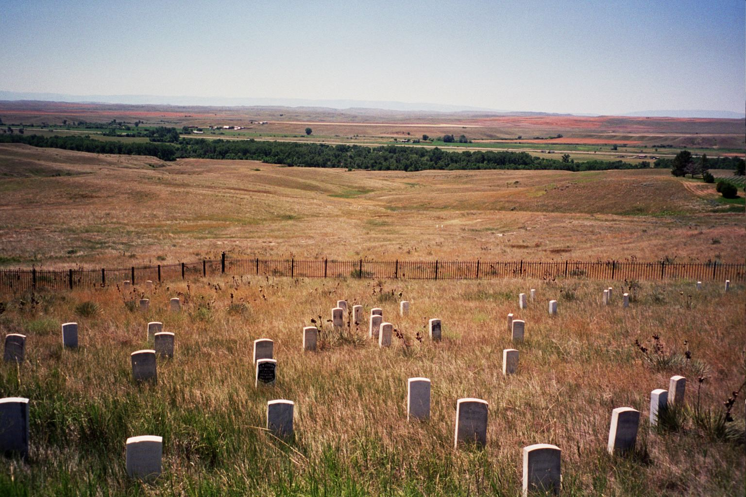 Custer's Last Stand, War Cemetery, Montana, USA